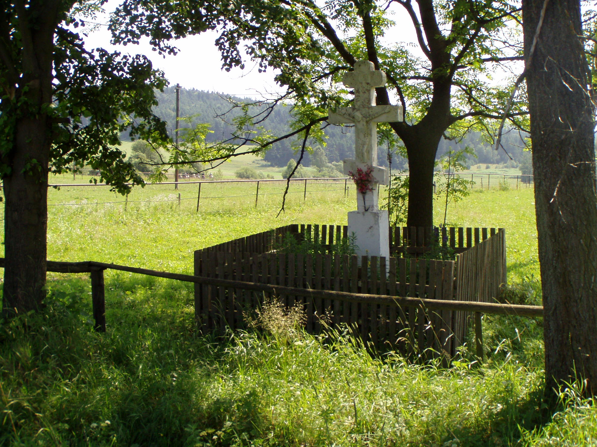 Cross in Gladyszow.